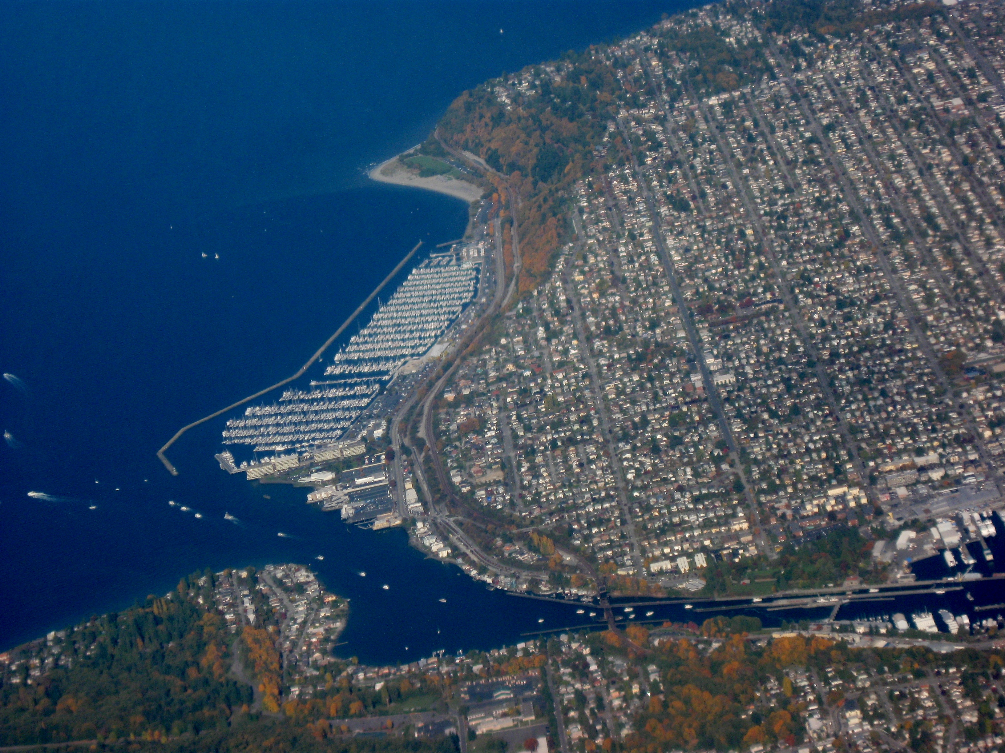 View of Ballard coast with various docks and marinas on Puget Sound/Shilshole Bay, facing north north west. Area near coast is Sunset Hill. The waterway at the bottom is the Lake Washington Ship Canal. On the protruding land in the top center is Golden Gardens Park. Taken by myself from a commercial airliner window.